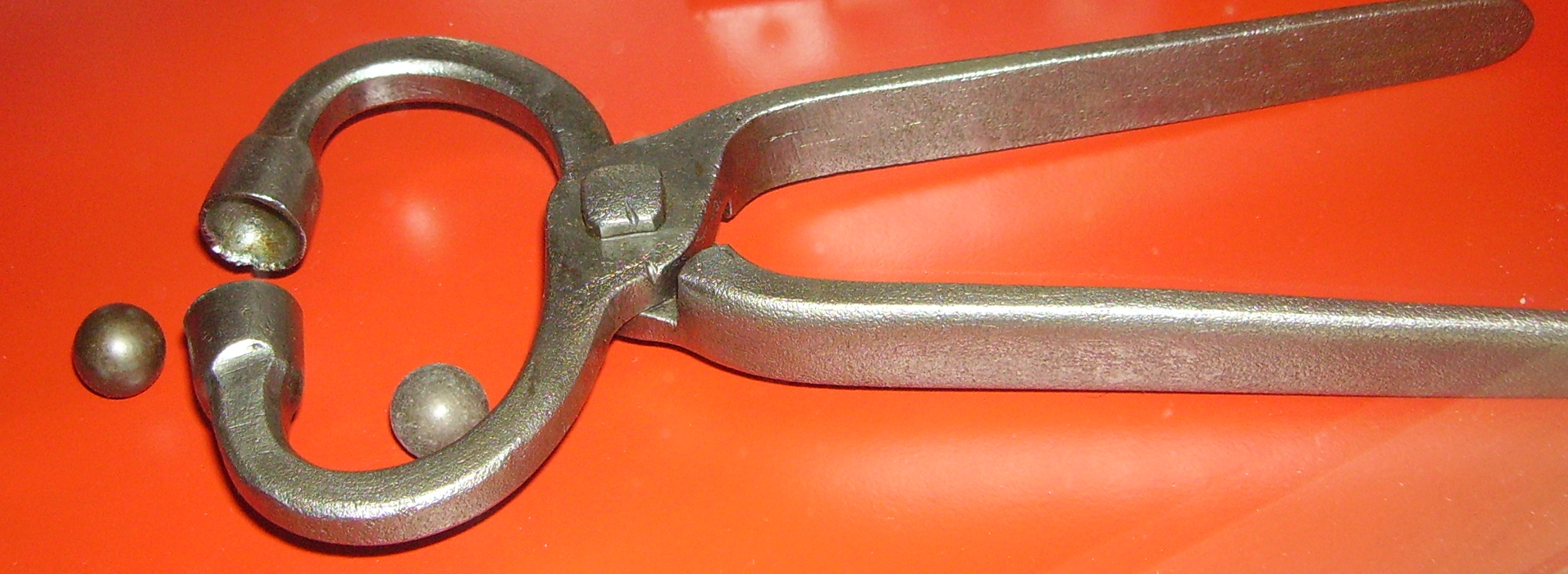 Musket ball pliers